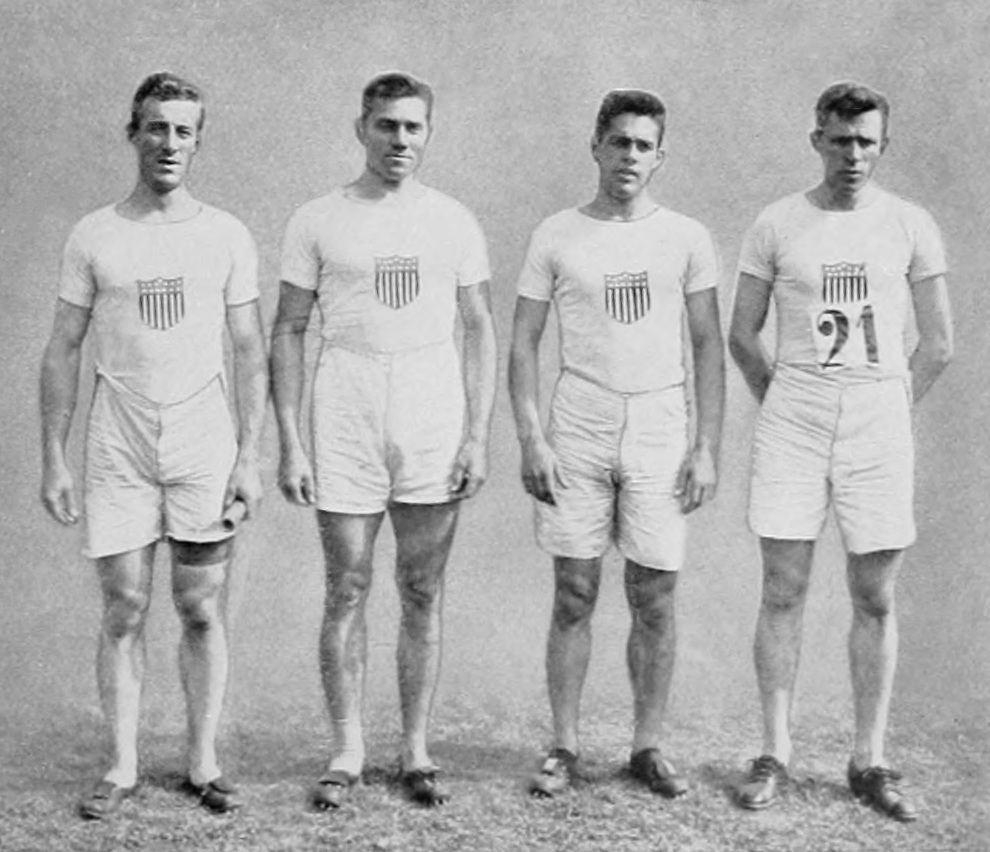 US relay team at the 1912 Summer Olympics: Charles Reidpath, Edward Lindberg, James Meredith and Melvin Sheppard